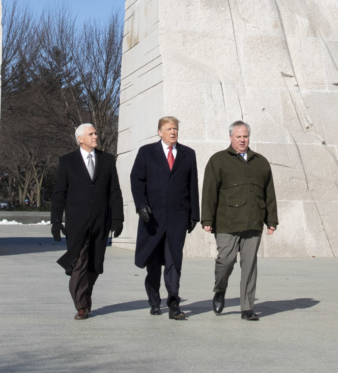 President Donald J. Trump, joined by Vice President Mike Pence, arrives at the Martin Luther King Jr. Memorial to present a wreath in honor of Martin Luther King Day Monday, January 21, 2019, in Washington, D.C. (Official White House Photo by Joyce N. Boghosian)